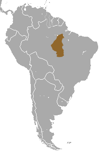 White-cheeked Spider Monkey (Ateles marginatus) range